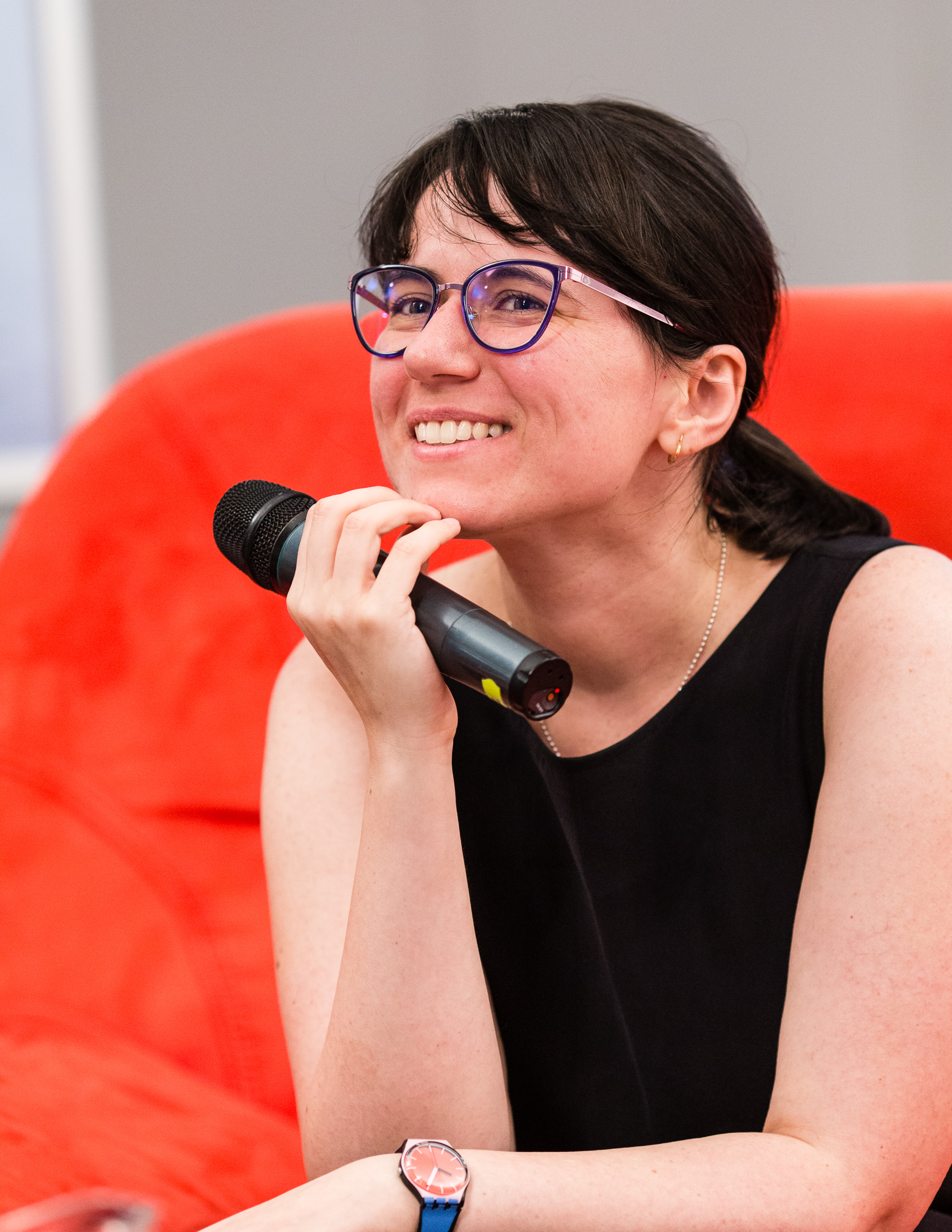 Lavinia Braniște on Authors’ Reading Month 2019, Wrocław, Poland